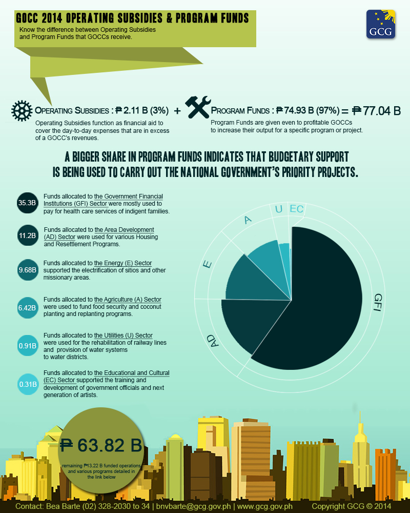 Infographic from the Governance Commission for Government Owned and Controlled Corporations of the Philippines about the subsidies and programs funds that GOCCs received from the Philippine national government in 2014